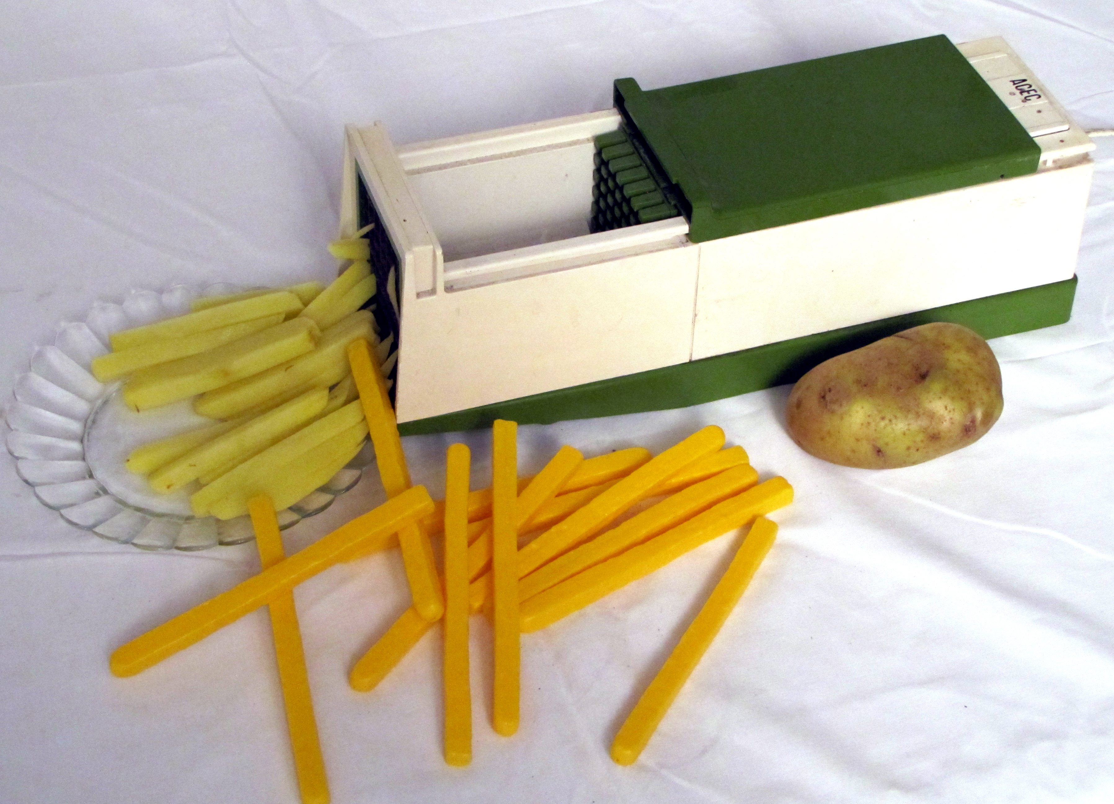 Electric chip-cutter, Gourmet museum, Hermalle-sous-Huy, Belgium